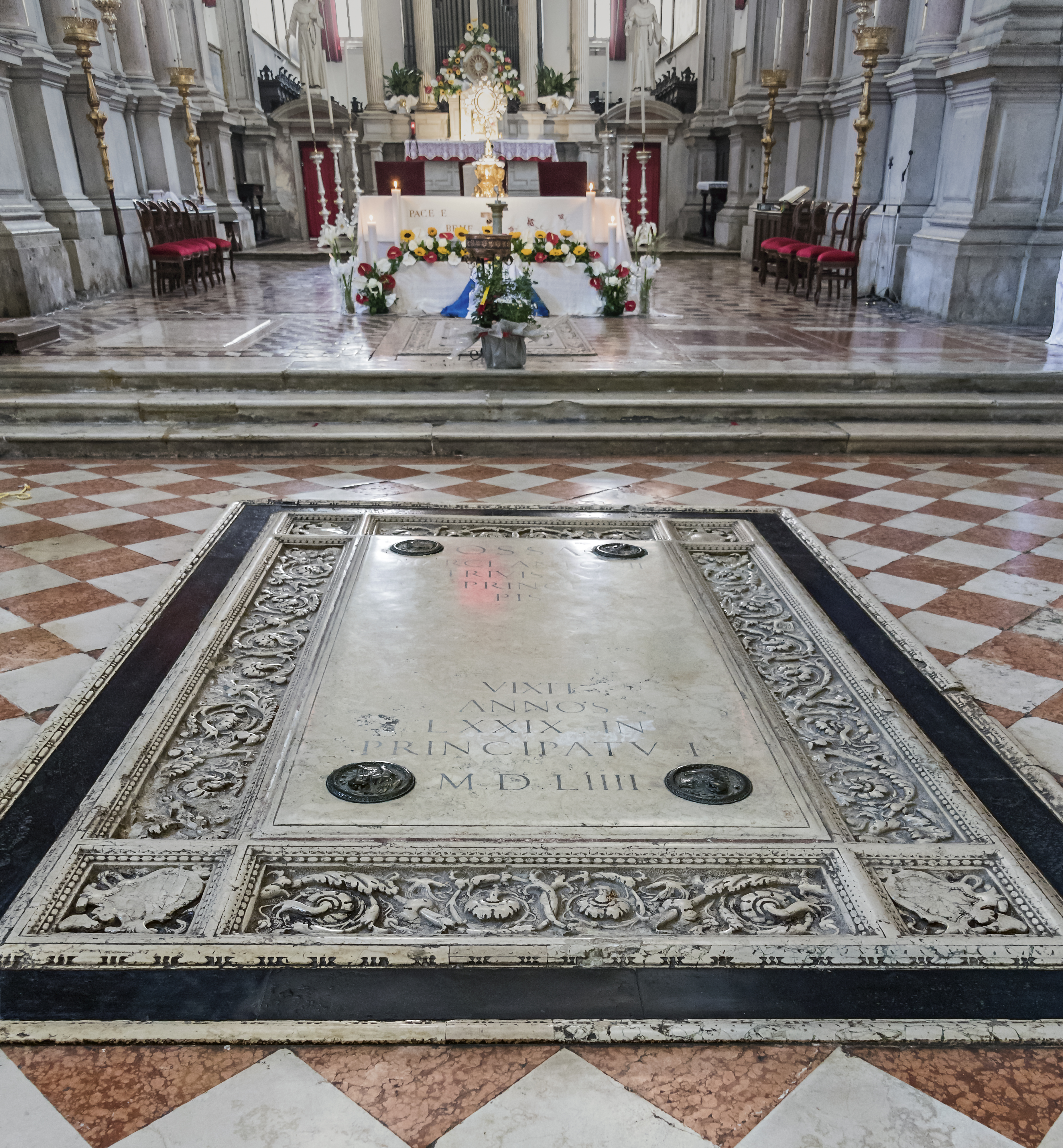 San Francesco della Vigna in Venice - center of transept - Gravestone of the Doge Marcantonio Trevisan